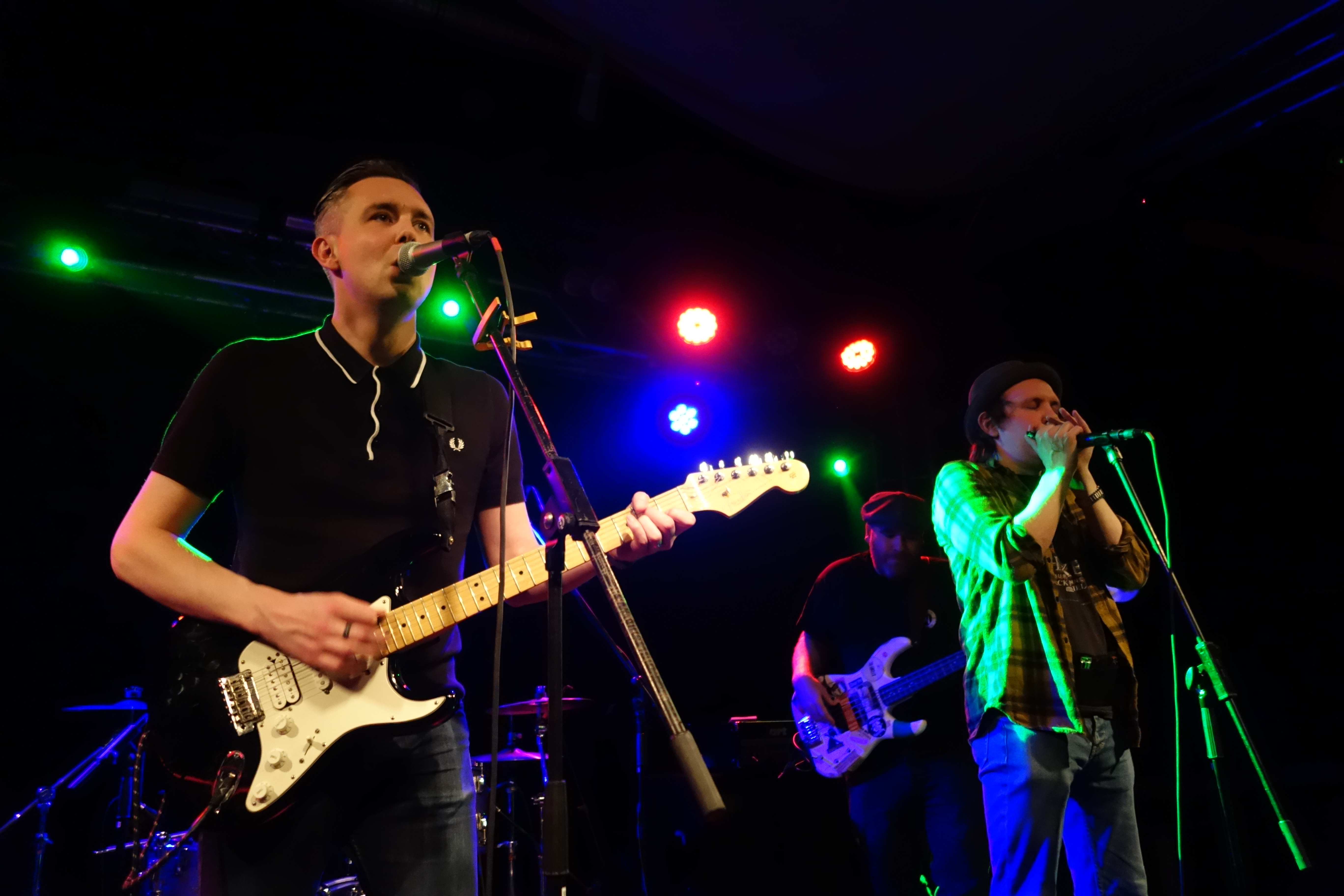 The Wakes live at "Das Bett", a club in Frankfurt ,13.04.2017